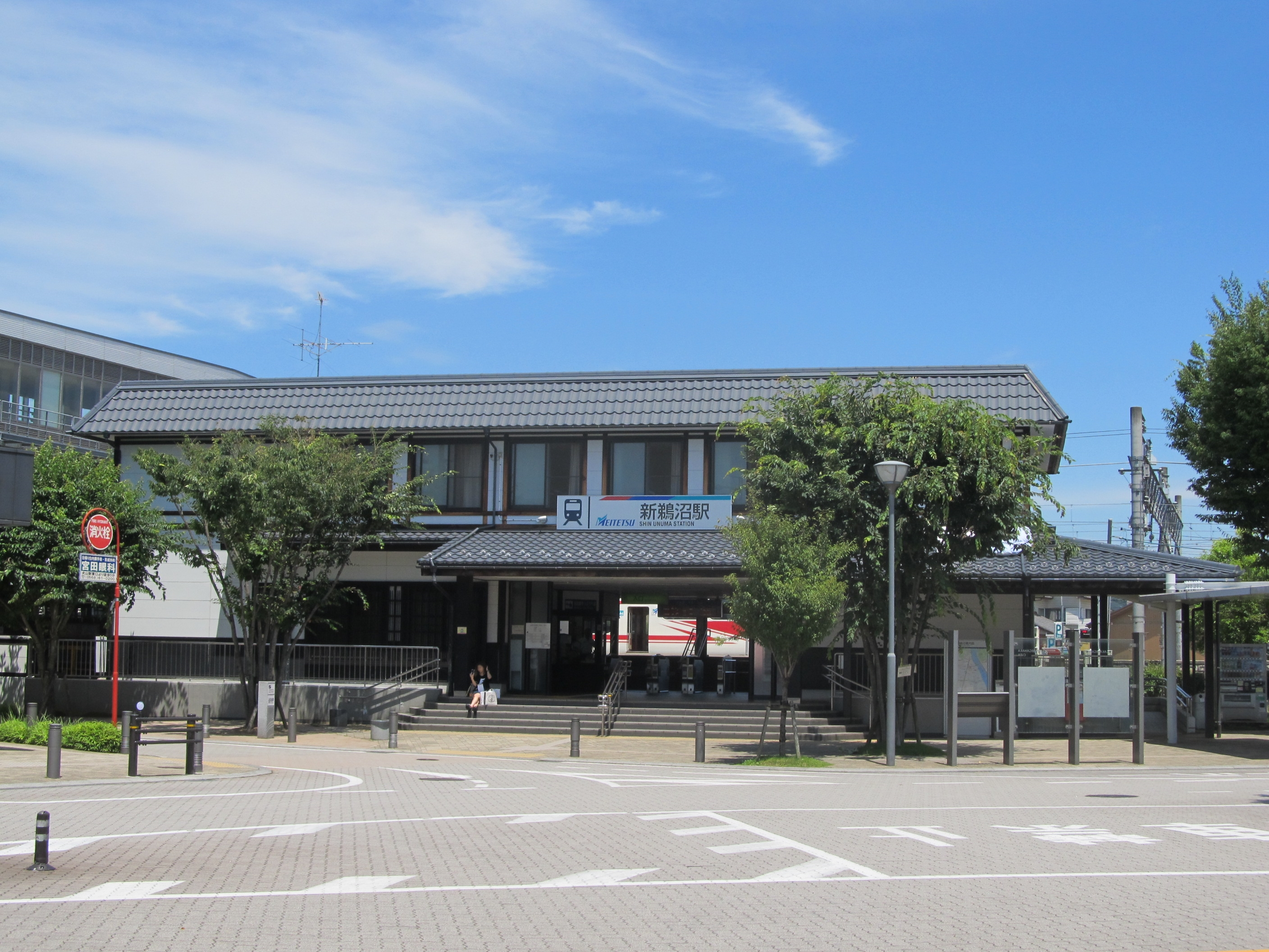 Nagoya Railroad Inuyama and Kakamigahara Line Shin Unuma Station Building